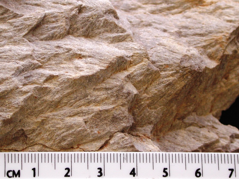 Close-up of shatter cones from Wells Creek impact crater, USA